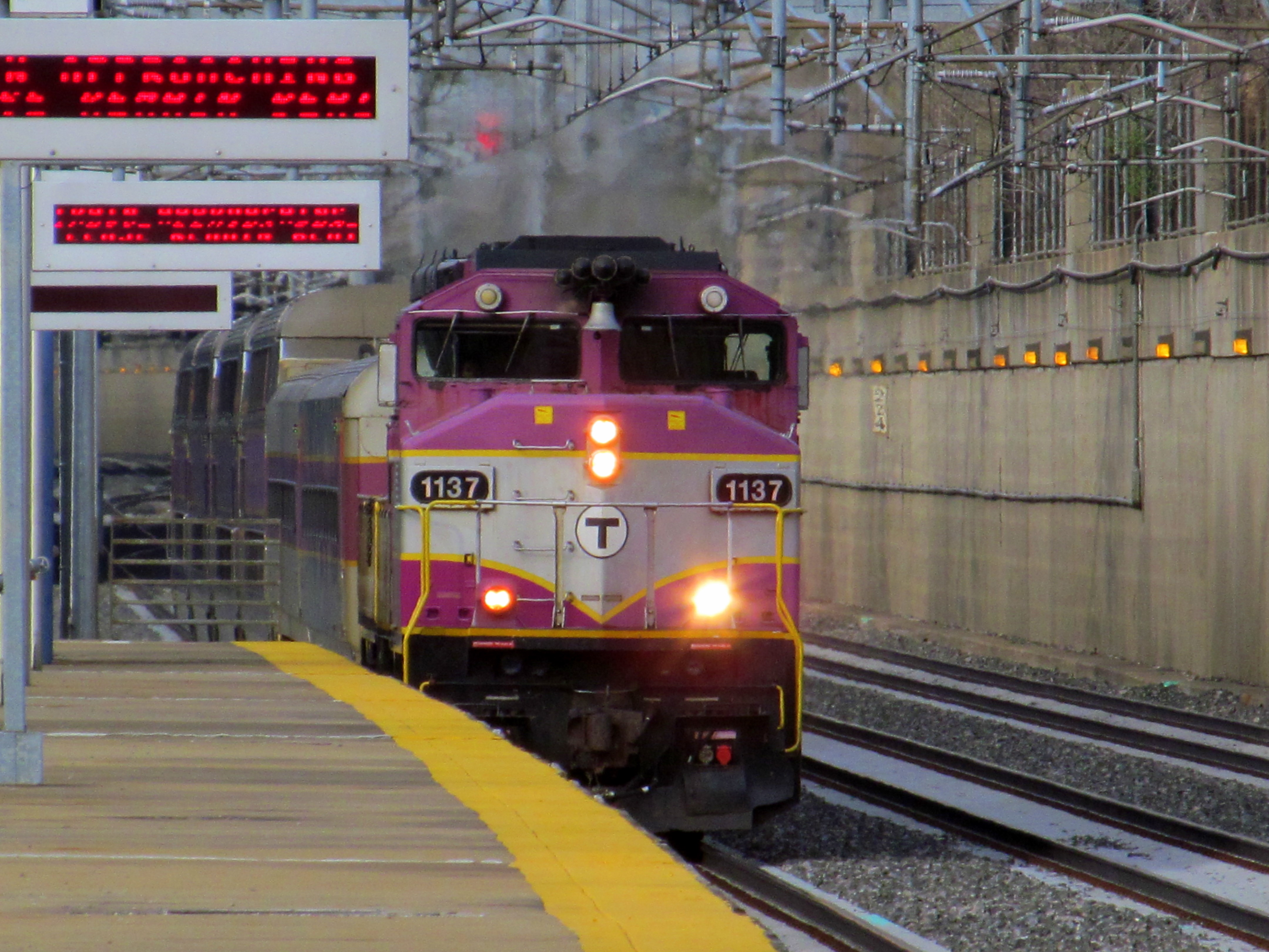 An outbound MBTA Commuter Rail train (probably the #1811 Providence local) blows by the commuter platform at Forest Hills at 79mph.